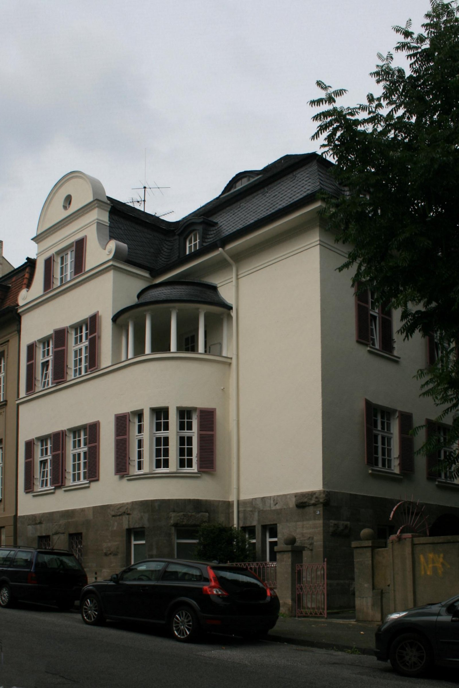 Cultural heritage monument No. G 011 in Mönchengladbach